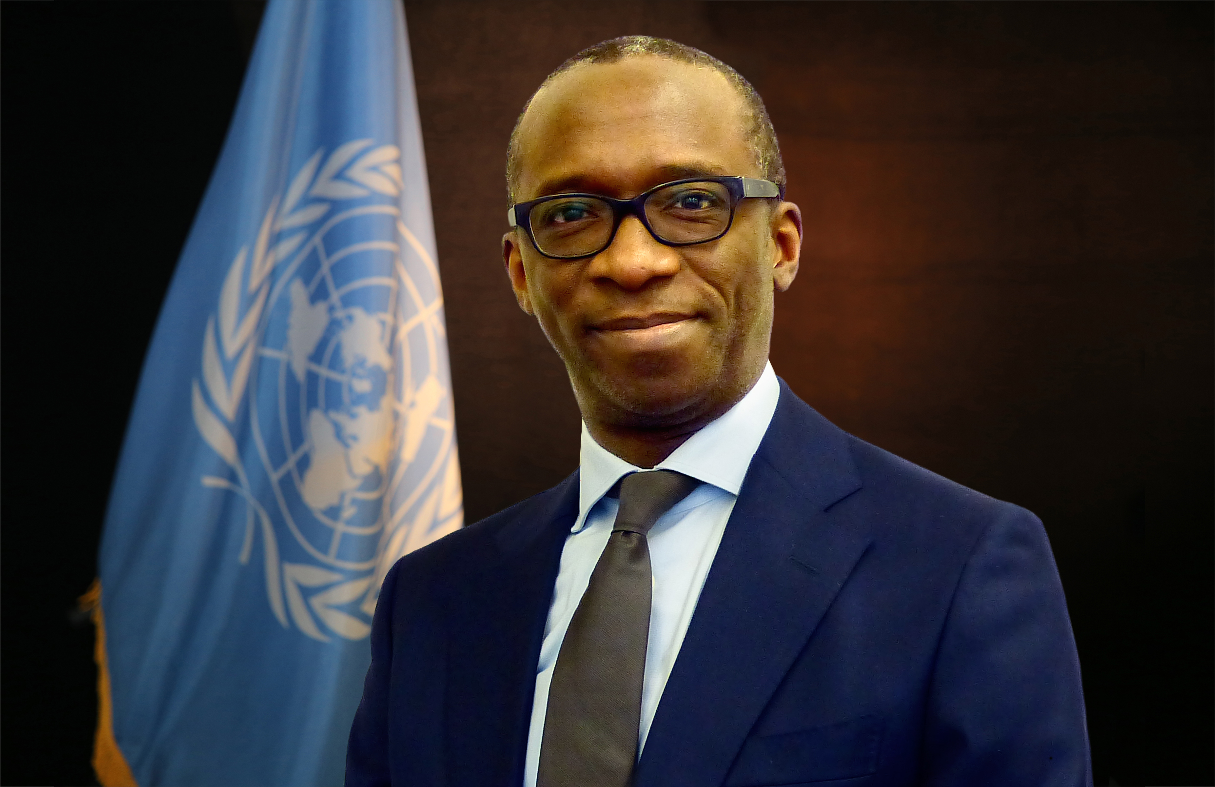 The picture of Mr. Olufemi Elias